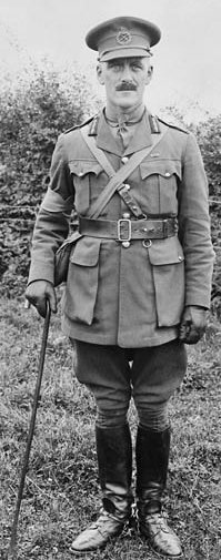 Brig. Gen. Garnet Hughes (1st Canadian Infantry Brigade).